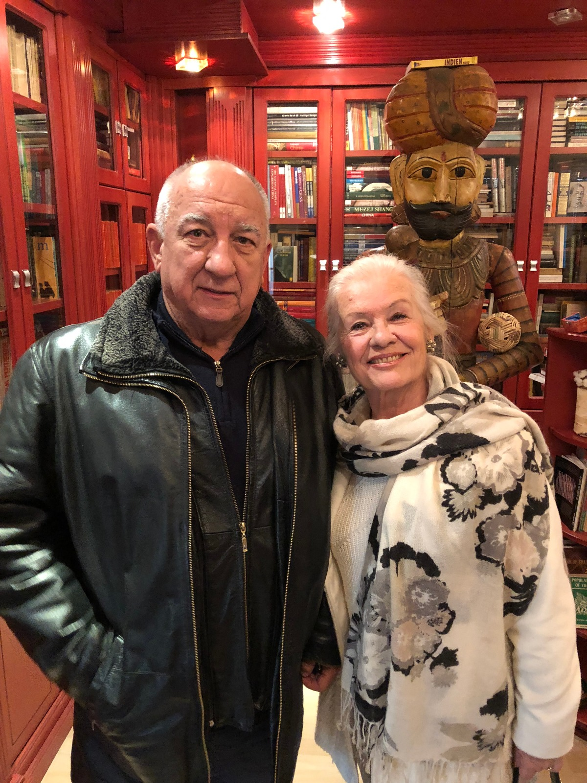 Ivan Bekjarev and Stevanka Češljarov in the Museum of Book and Travel in Belgrade, Serbia. Српски (ћирилица): Иван Бекјарев и Стеванка Чешљаров у Музеју књиге и путовања у Београду.